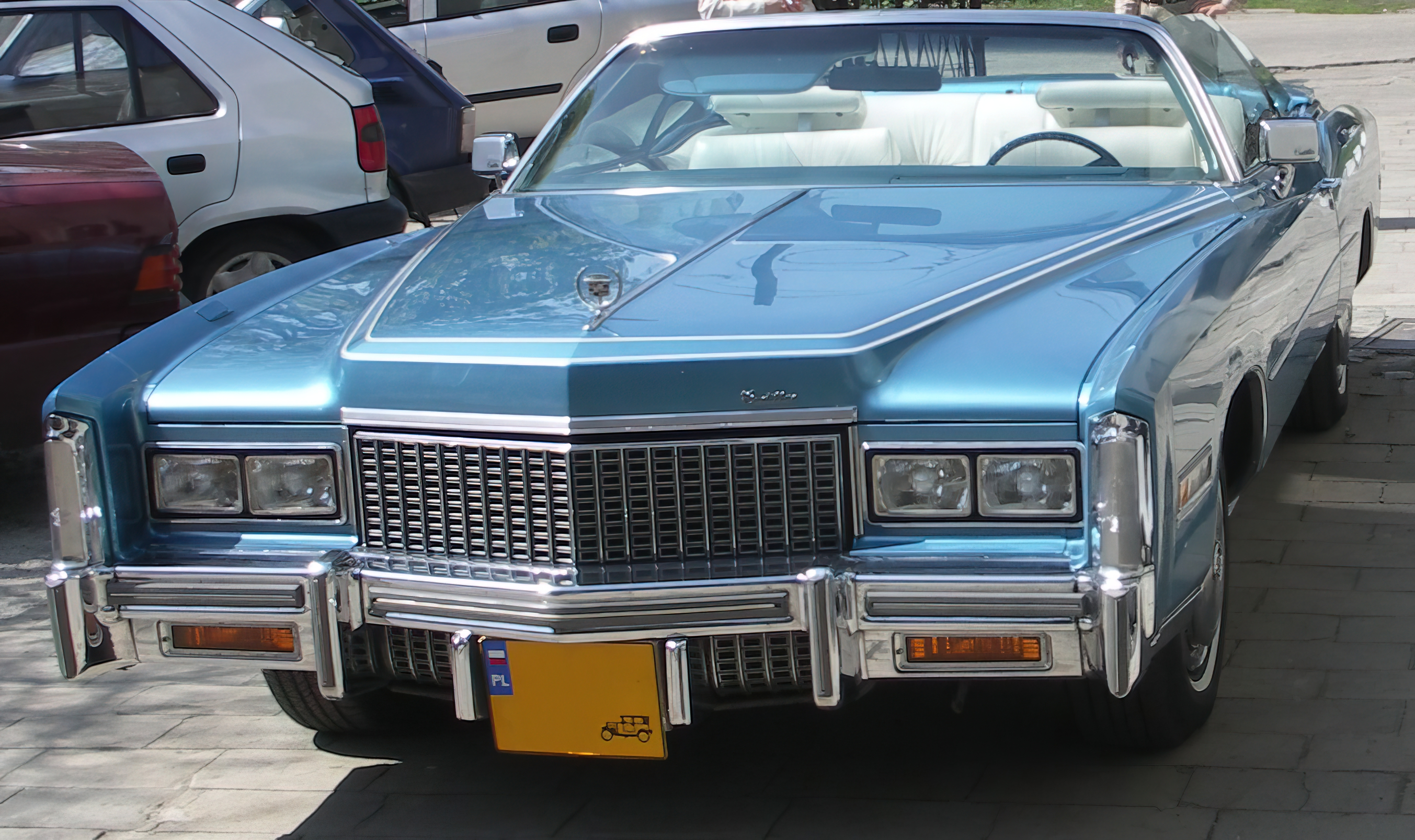 Cadillac Eldorado from 1976 in Sosnowiec (no fender skirt, probably not 1976)